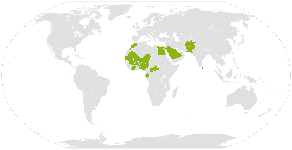 Etisalat global presence